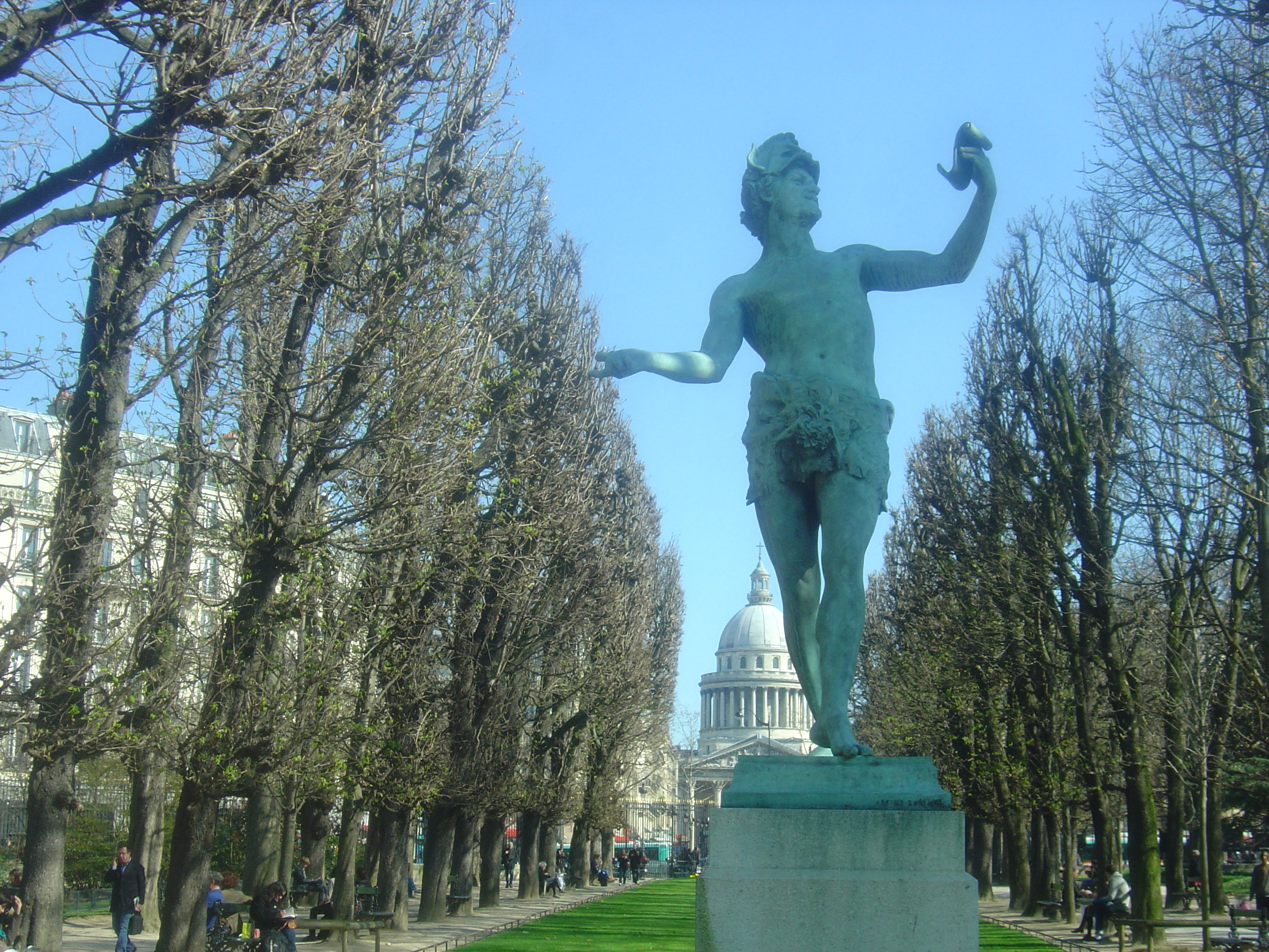 L'Acteur sculpture by Charles-Arthur Bourgeois